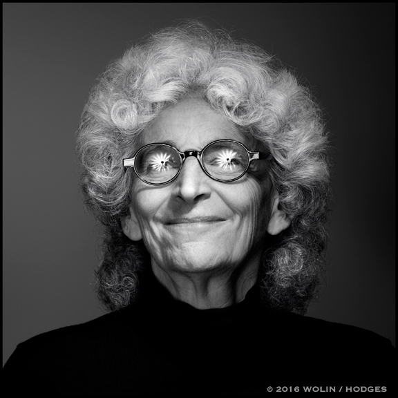 Portrait of Penny Wolin